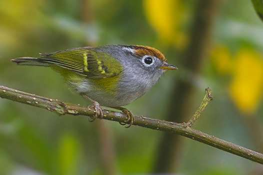 The species Chestnut-crowned Warbler had been photographed during the birding tour of GoingWild at Khangchendzonga National Park in West Sikkim, Sikkim, India on 28.10.2015.